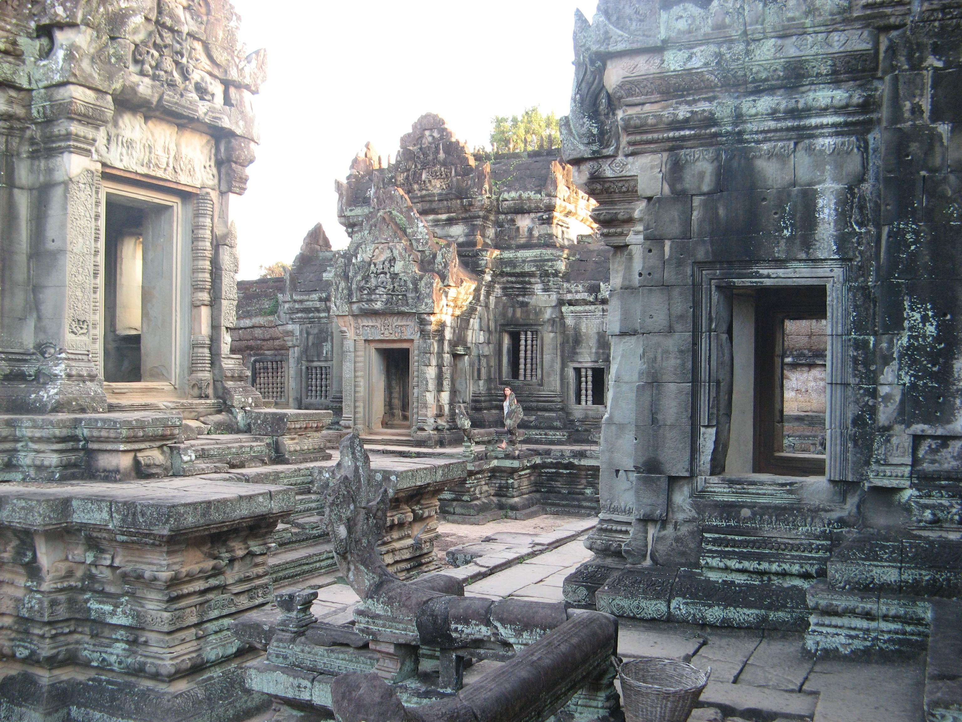 banteay samré